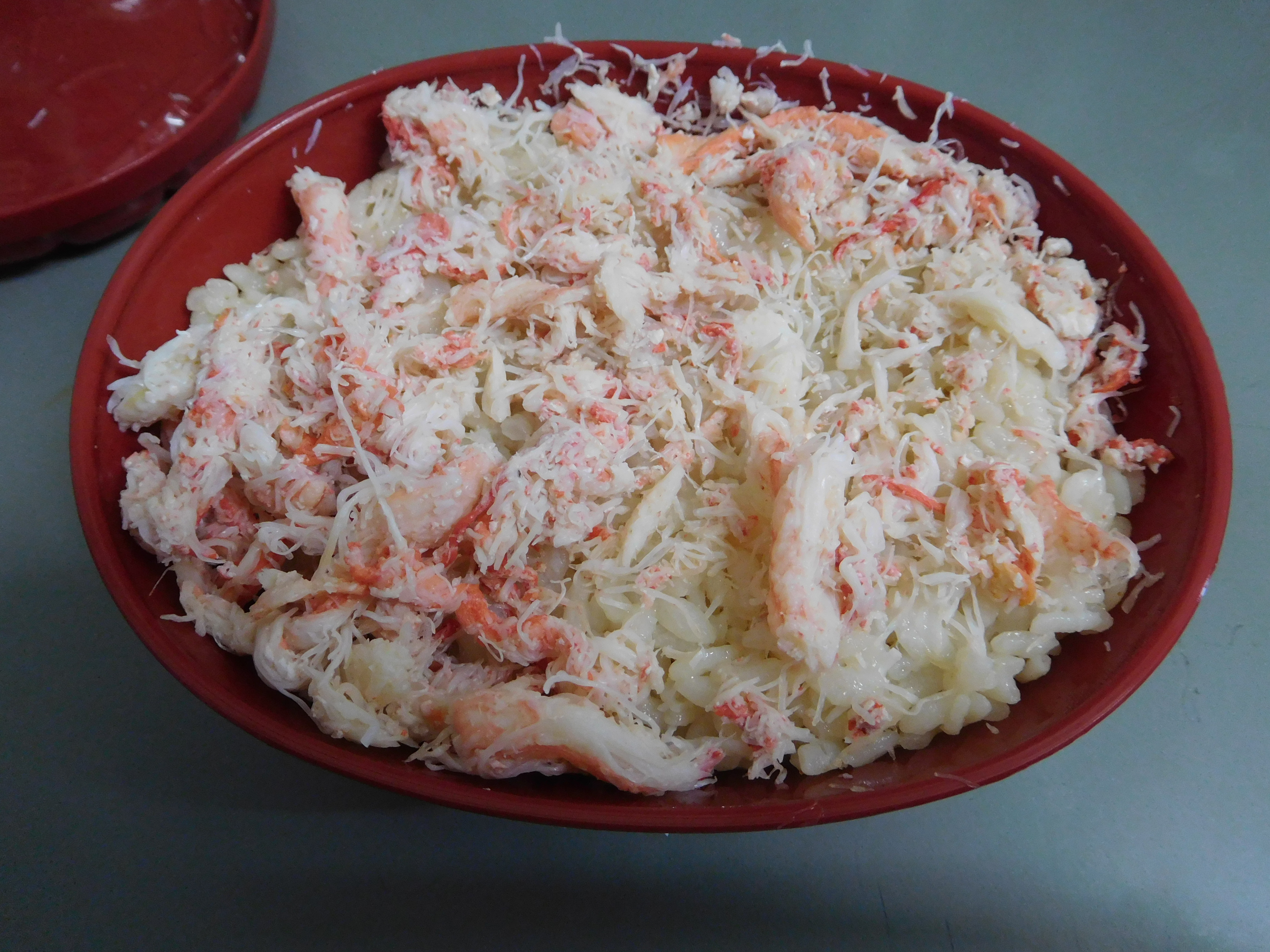 This is an ekiben in Fukui pref. Japan. Kanimeshi means "Crab Rice".